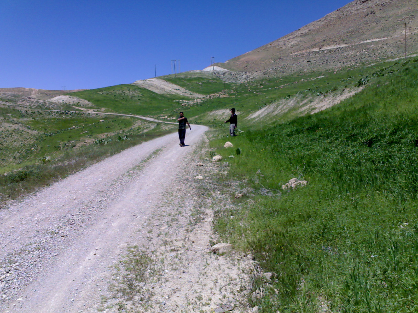 راه هاي ارتباطي مريك